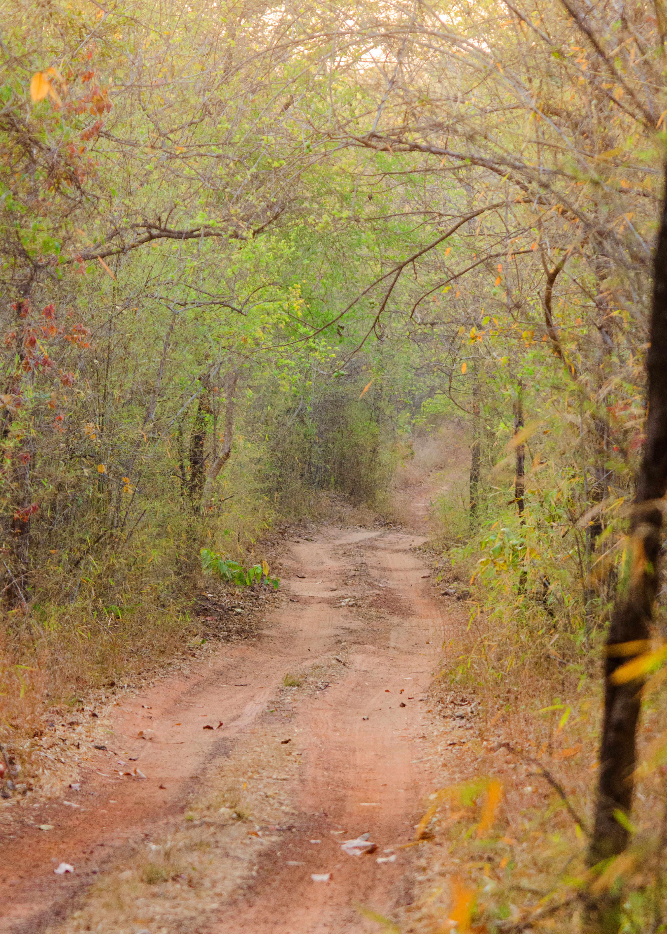 Beautiful morning ride at Tadoba Andhari Tiger Reserve